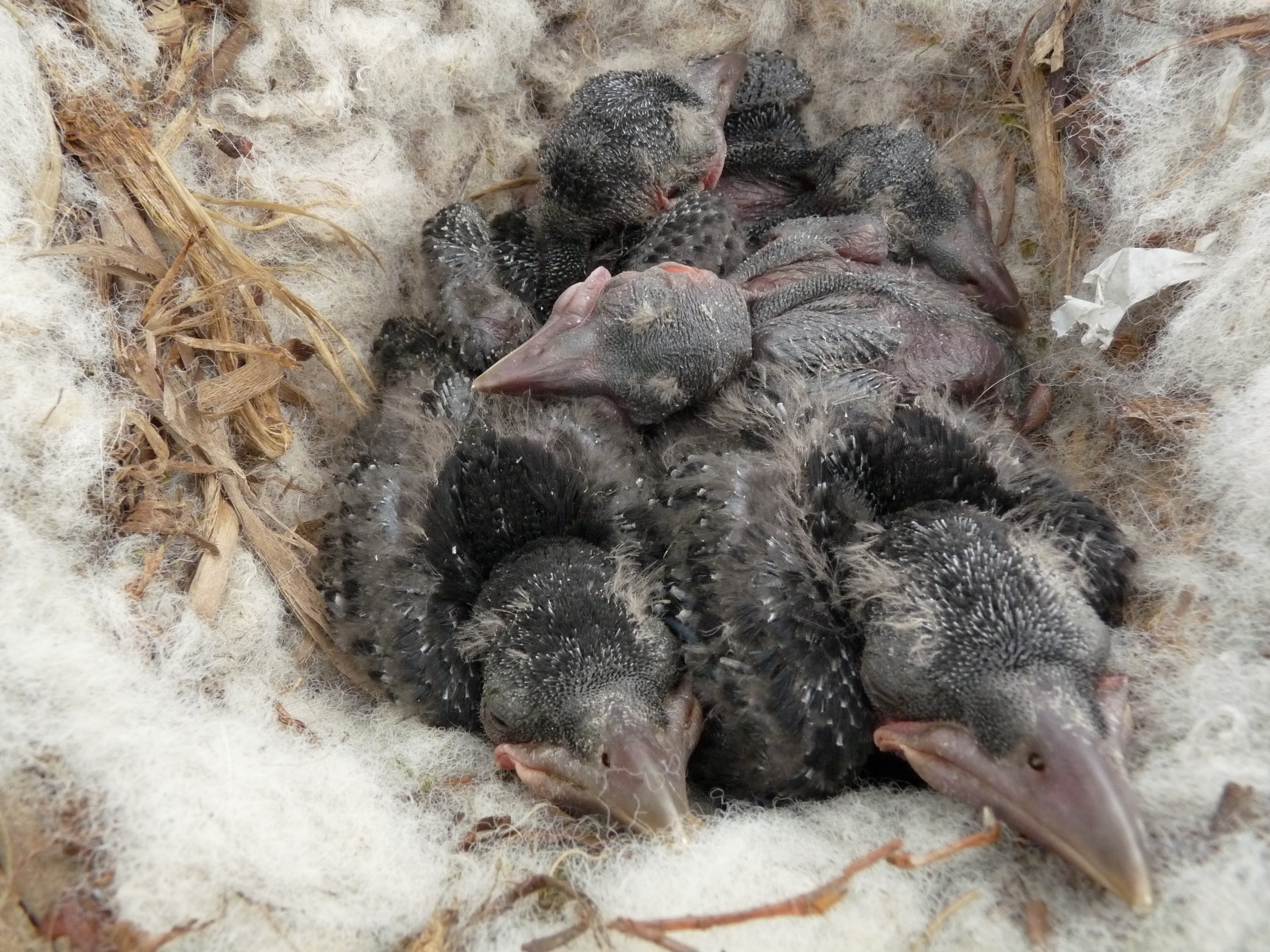 they look like the goblins from the film the labyrinth Latin name Corvus corone Family Crows and allies (Corvidae) Overview The all-black carrion crow is one of the cleverest, most adaptable of our birds. It is often quite fearless, although it can be wary of man. They are fairly solitary, usually found alone or in pairs. The closely related hooded crow has recently been split as a separate species. Carrion crows will come to gardens for food and although often cautious initially, they soon learn when it is safe, and will return repeatedly to take advantage of whatever is on offer. Where to see them Found almost everywhere, from the centre of cities to upland moorlands, and from woodlands to seashore. When to see them All year round. What they eat Carrion, insects, worms, seeds, fruit and any scraps.